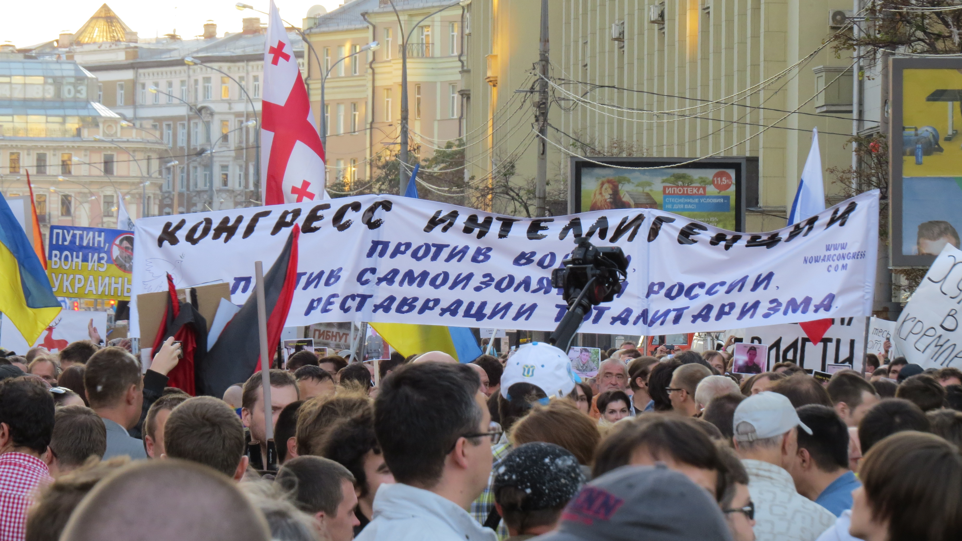 March of Peace in Moscow. September 21, 2014.